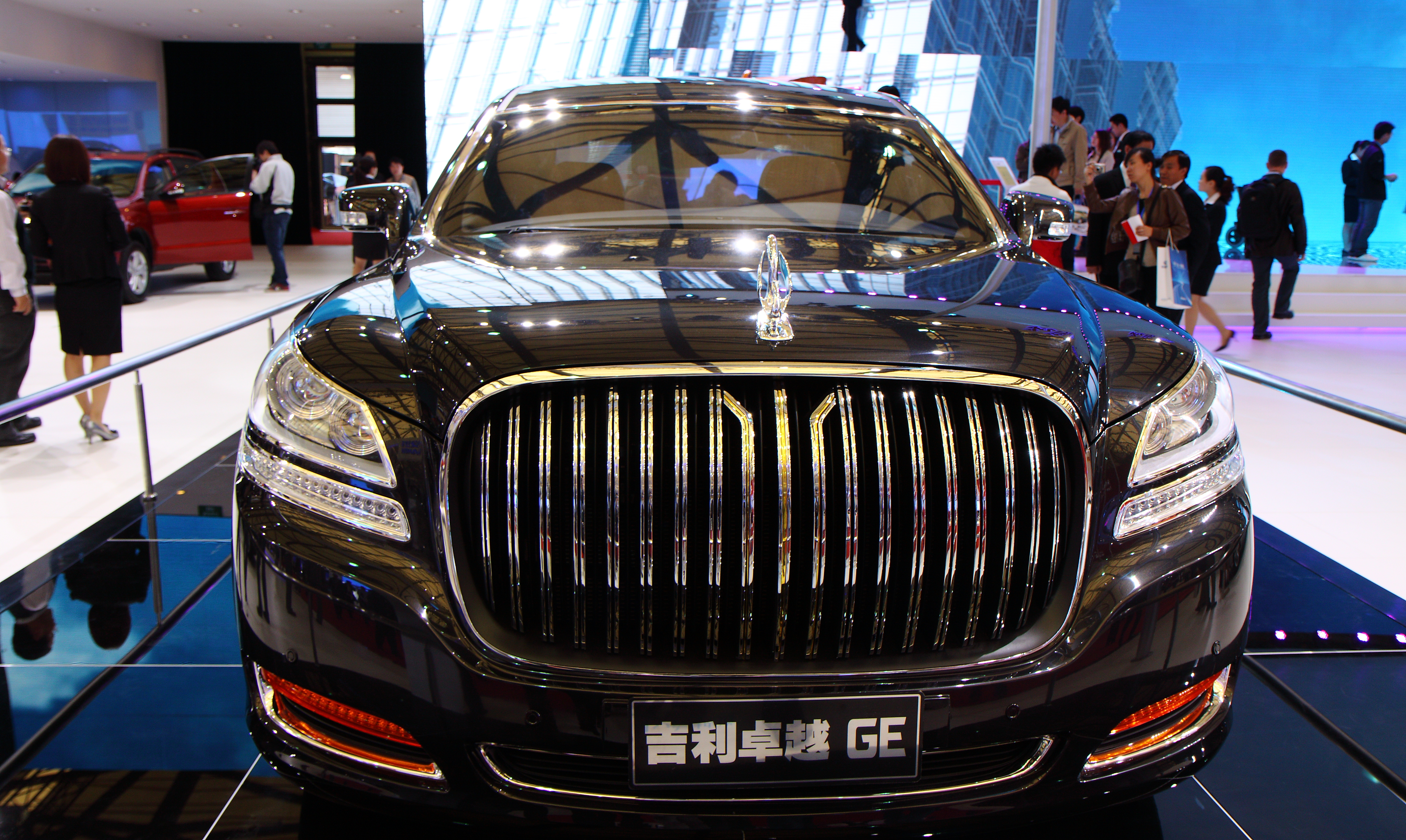 Geely GE concept car, appearance in Auto Shanghai 2011